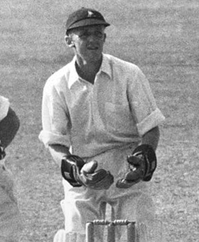 20th August 1947: England batsman Denis Compton (1918 - 1997) puts the ball out to the boundary during a quick century against the South Africans at the Oval, London; George Fullerton keeps wicket beyond for the South Africans.